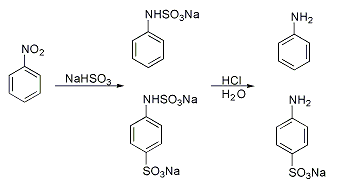 Piria reaction scheme